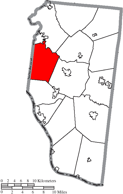 Map of the municipal and township boundaries of Clermont County, Ohio, United States, as of the 2000 census, with the location of Union Township highlighted. Township borders are shown only in unincorporated areas in order to differentiate incorporated and unincorporated areas more clearly.